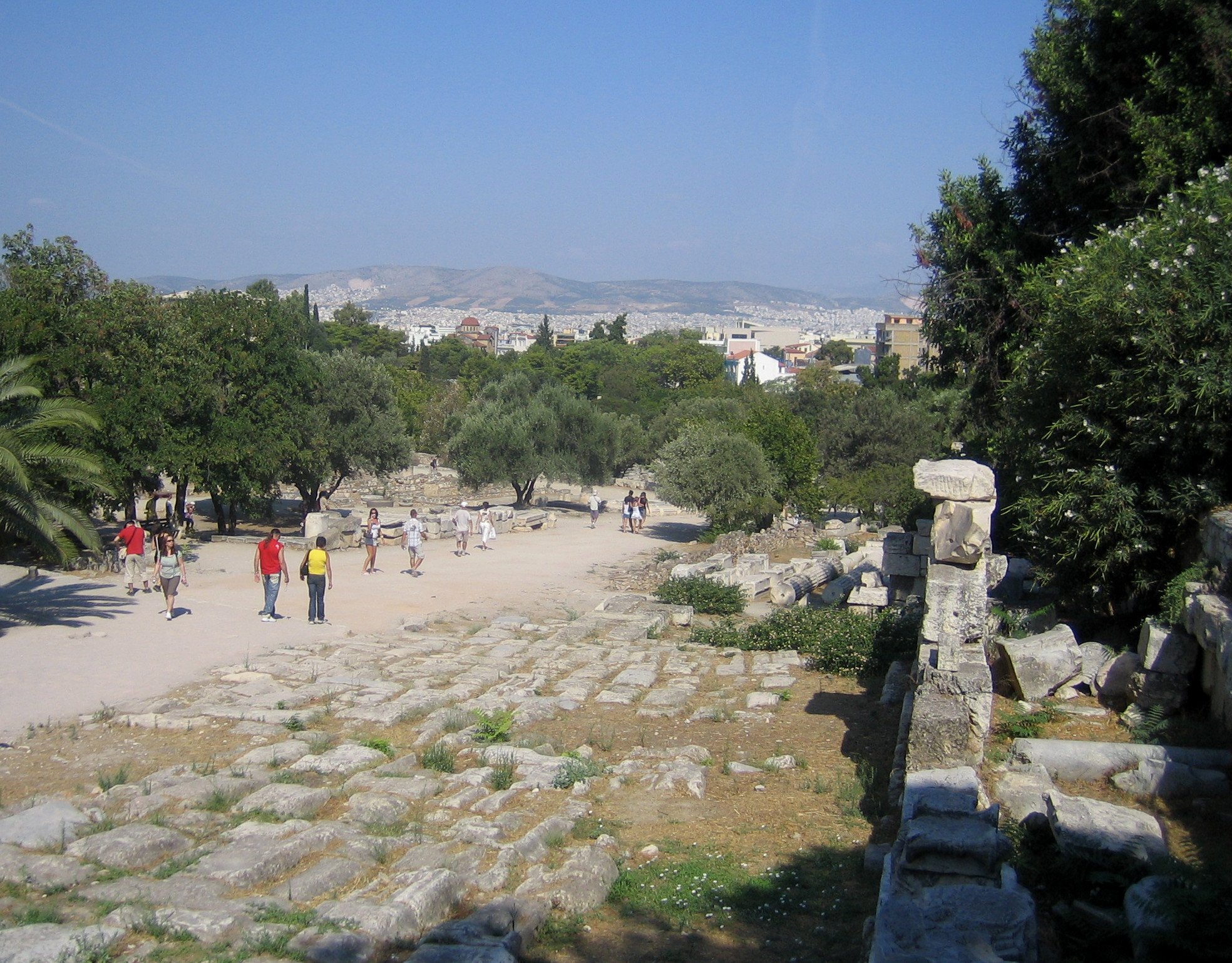 Ruins of the Southeast Stoa along the route of the Panathenaic Way. Ancient Agora of Athens.